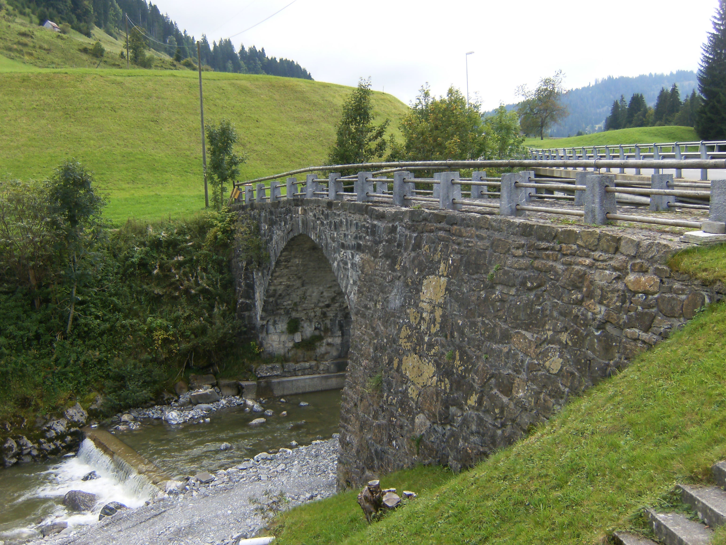 Jessenenbrücke